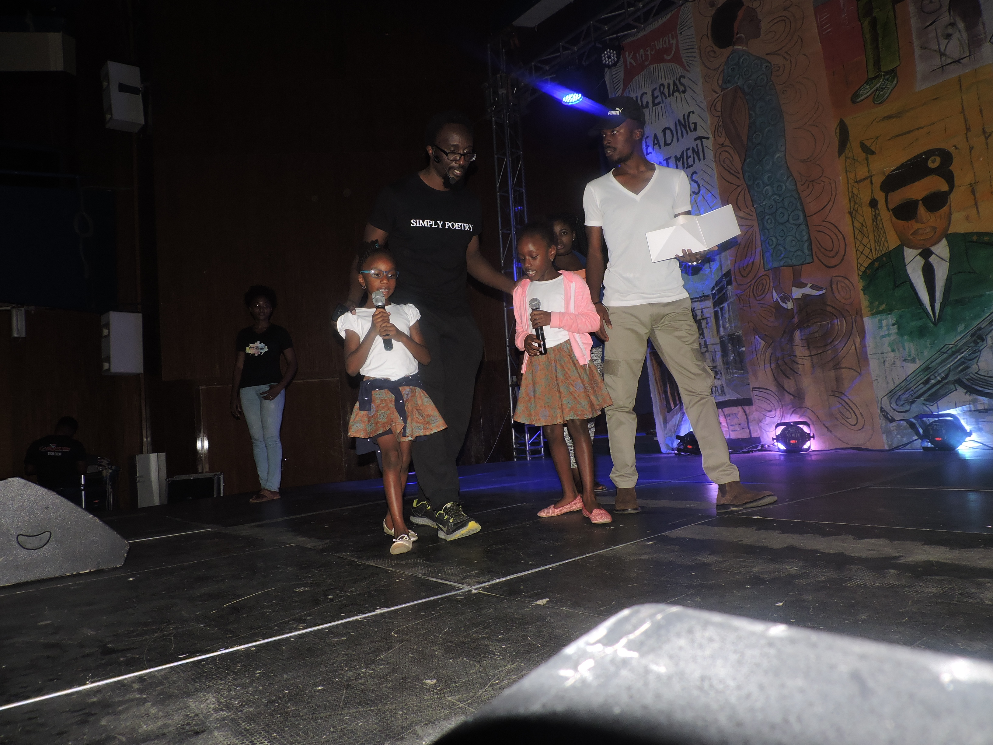 Dike preparing for one his shows on February 17, 2017 at the Transcorp Hilton Hotel, Abuja, Nigeria.